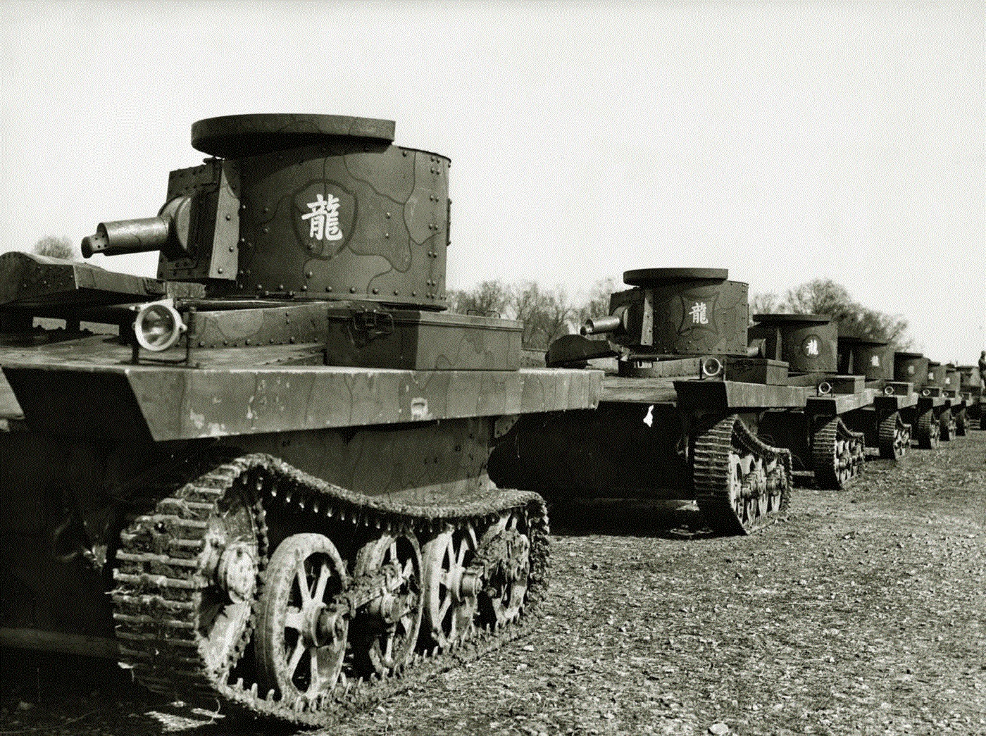 Vickers Carden Loyd Light tanks (M1931), 20 units were bought by NRA.